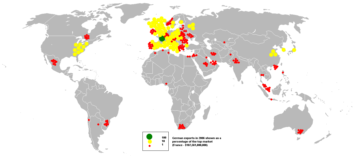 This bubble map shows the global distribution of German exports in 2006 as a percentage of the top market (France - $107,561,000,000). This map is consistent with incomplete set of data too as long as the top producer is known. It resolves the accessibility issues faced by colour-coded maps that may not be properly rendered in old computer screens. Data was extracted on 26th September 2007 from Based on :Image:BlankMap-World.png